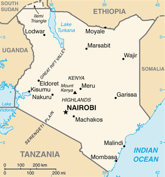 Kenya map from CIA World Factbook, converted from original GIF format (July 2011 version showing South Sudan)